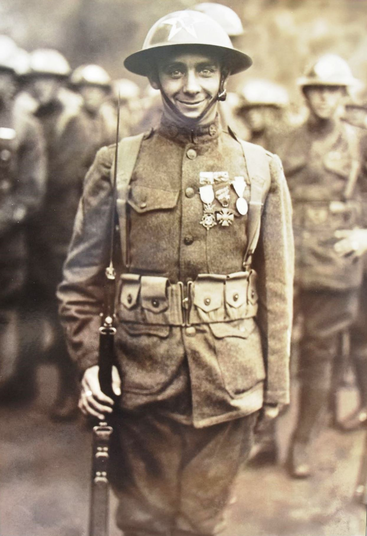 Sergeant Ludovicus M. M. Van Iersel in the summer of 1919. He wears the United States Medal of Honor, the French Croix de guerre with two bronze palms and one silver star and the Montenegrin Medal for Military Bravery. Although difficult to discern, there is a wound chevron on his lower right sleeve. Note, too, the 2nd Infantry Division insignia on his helmet.